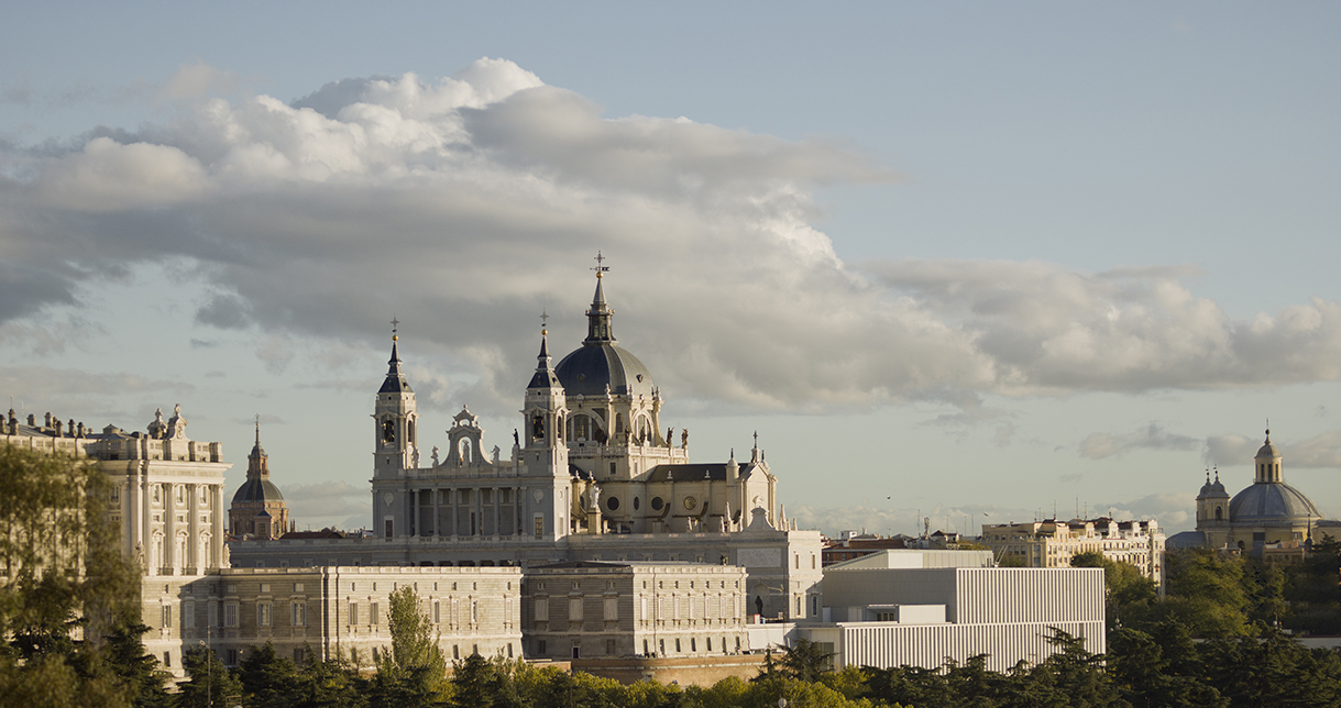 Picture of the Royal Palace on the left and the new Royal Collections Museum in Madrid. Building by Mansilla + Tuñón Arquitectos